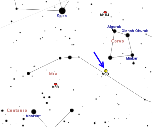 Map of M68